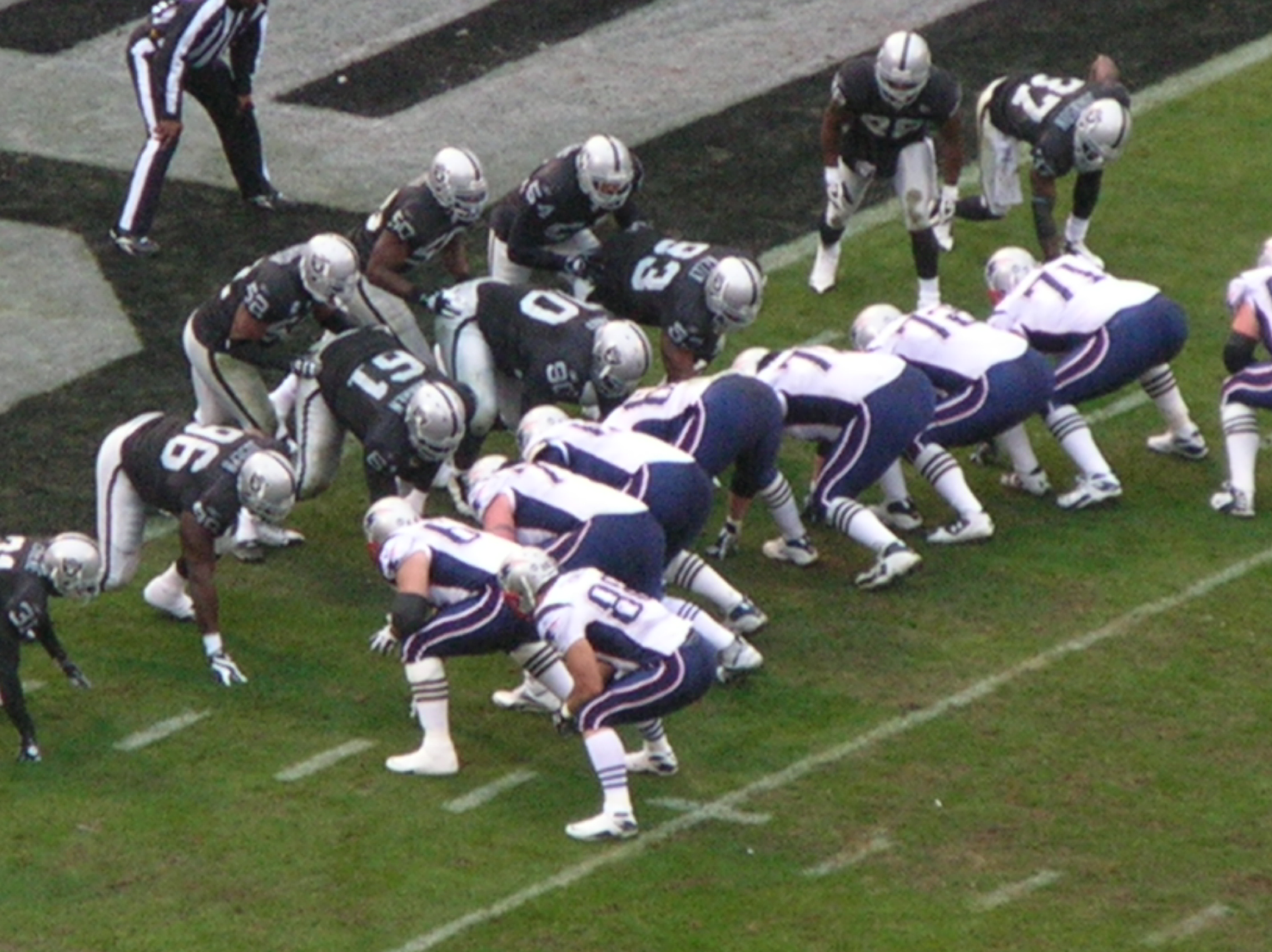 The New England Patriots prepare to kick a PAT during an away game against the Oakland Raiders. The Patriots won 49-26.